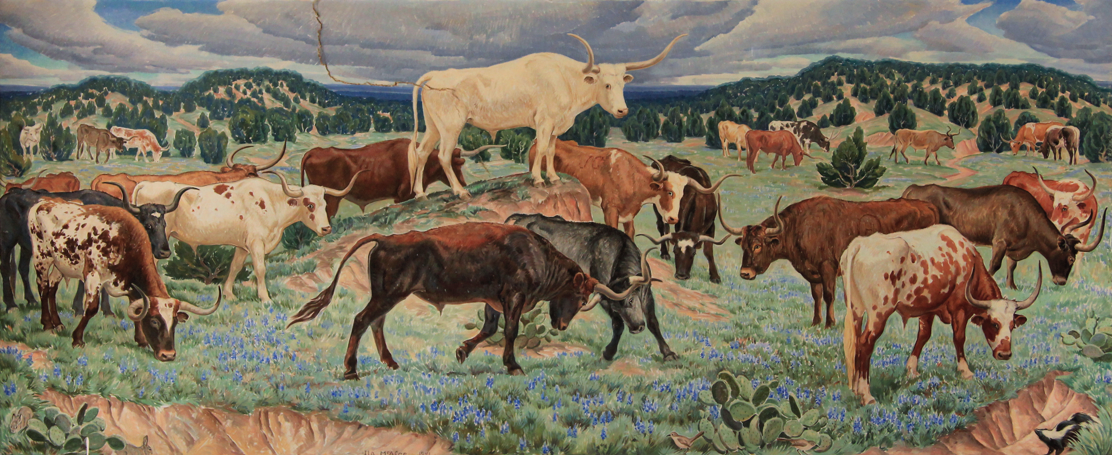 This oil-on-canvas mural “Texas Longhorn—A Vanishing Breed” was painted by Ila Turner McAfee in 1941 as part of the United States Treasury Department Section of Fine Arts Program. The mural hangs in the post office in Clifton, Texas, United States